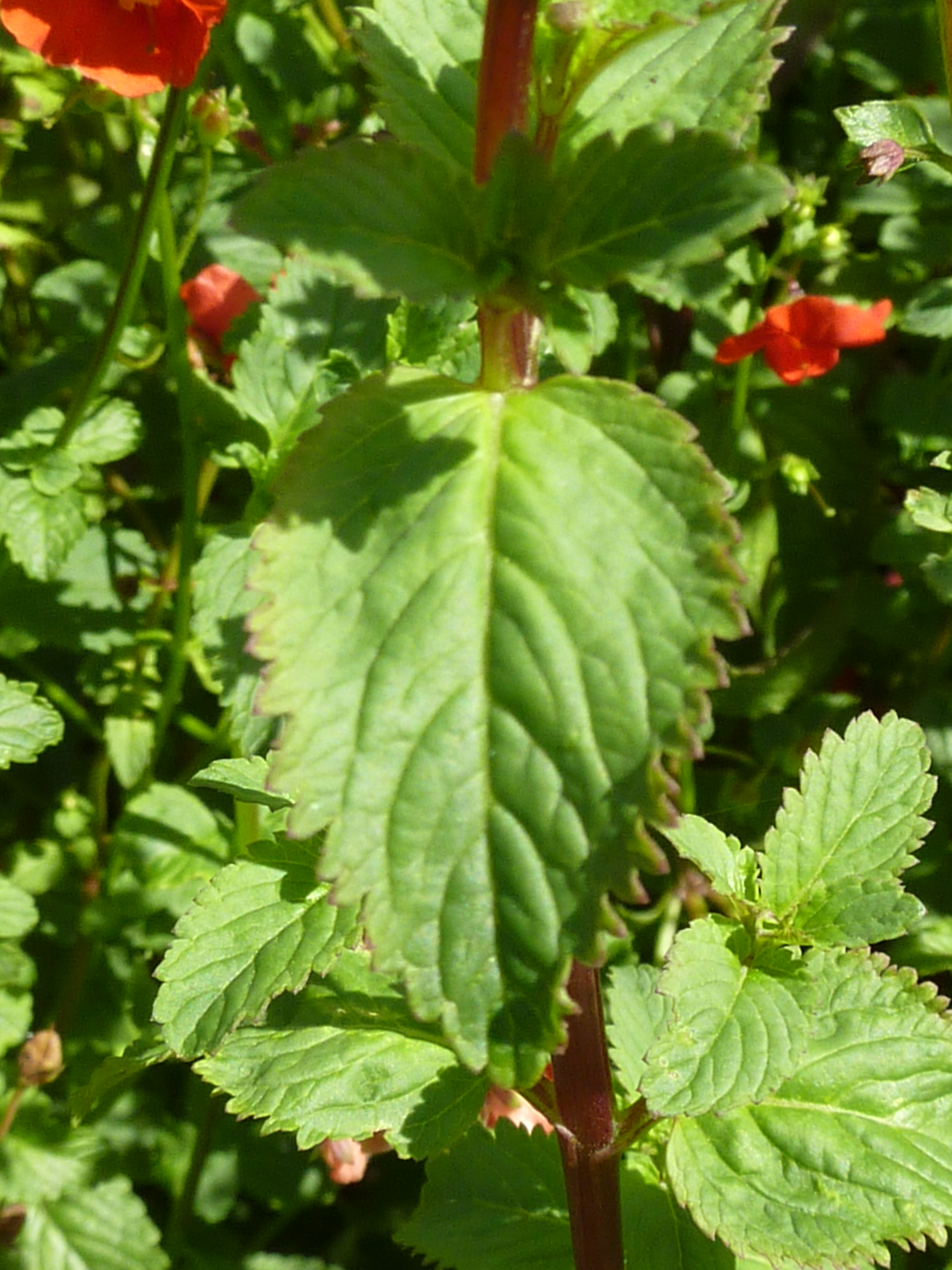 Taken in the Cambridge University Botanic Garden